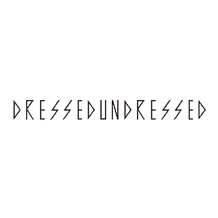 DRESSEDUNDRESSED logo